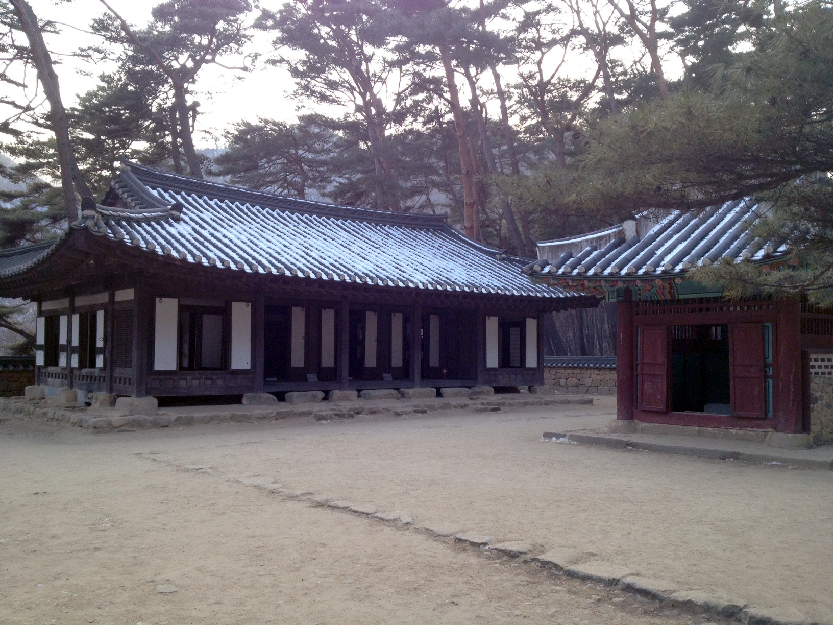 A house that the Danjong had lived during his first exile. The site was called as Cheongryeong-po.